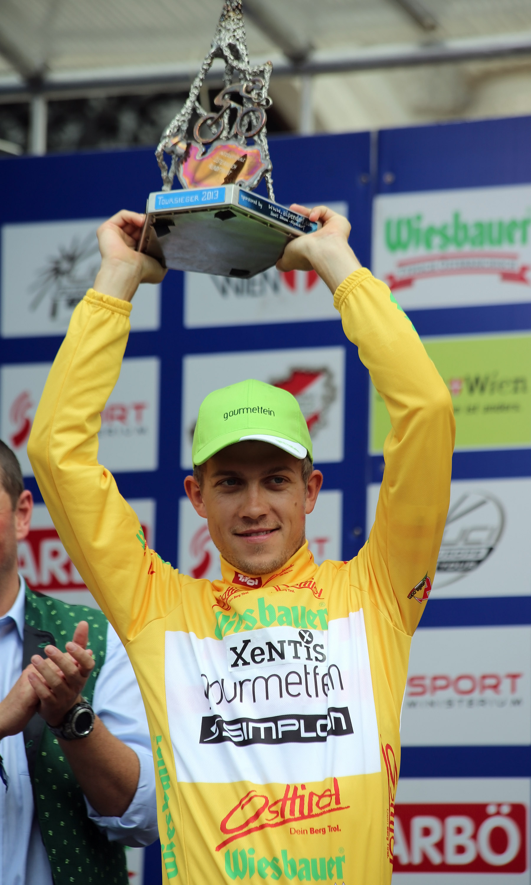 Winner Riccardo Zoidl at the award ceremony of the Tour of Austria in Vienna, Austria.